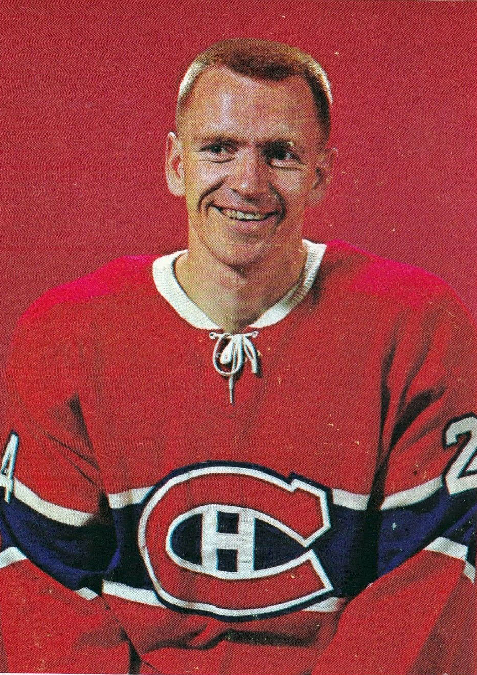 Trading card photo of Red Berenson as a member of the Montreal Canadiens. These cards were printed on the backs of Chex cereal boxes in the US and Canada from 1963 to 1965. Those collecting the cards cut them from the back of the boxes. Berenson's card at PSA.